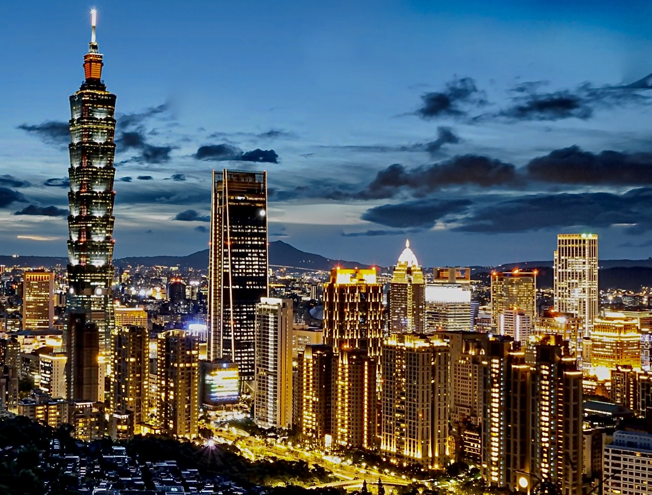 Taipei skyline viewed from Mt. Elephant taken in 2020